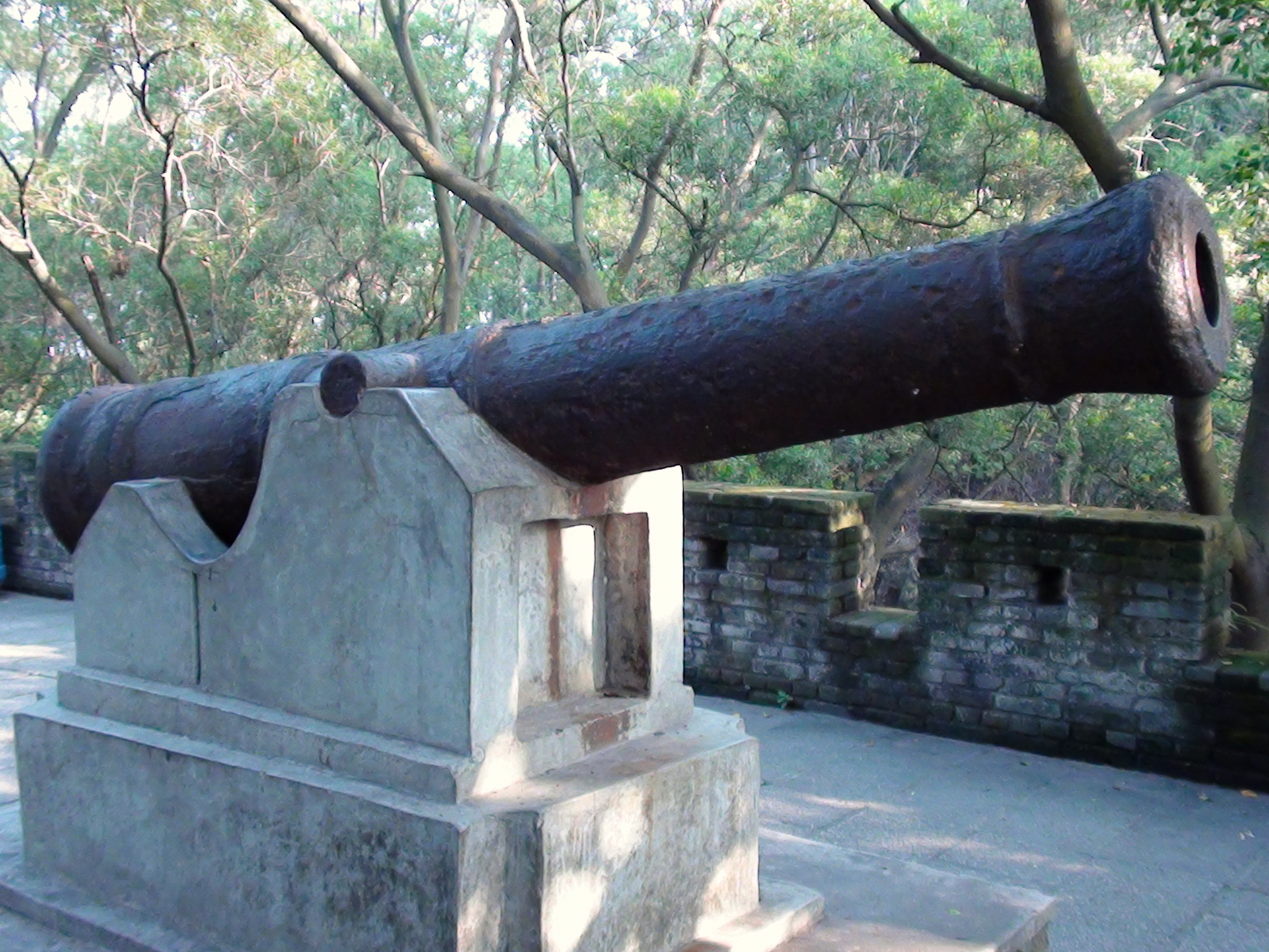 the Left Fort in Shenzhen,China